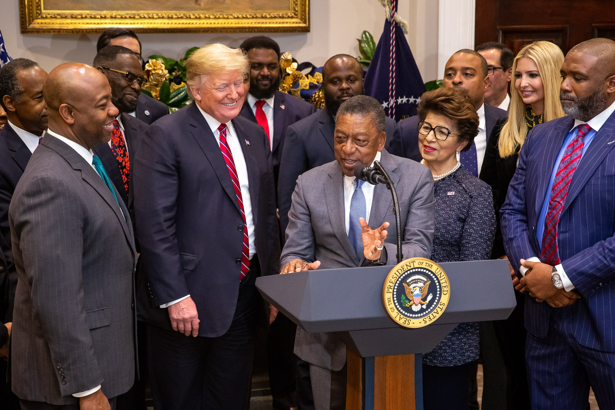 President Donald J. Trump listens as Bob Johnson, founder of the BET and RLJ Companies, addresses his remarks Wednesday, Dec. 12, 2018, at the signing ceremony of the Executive Order to establish the White House Opportunity and Revitalization Council in the Roosevelt Room of the White House. (Official White House Photo by Tia Dufour)